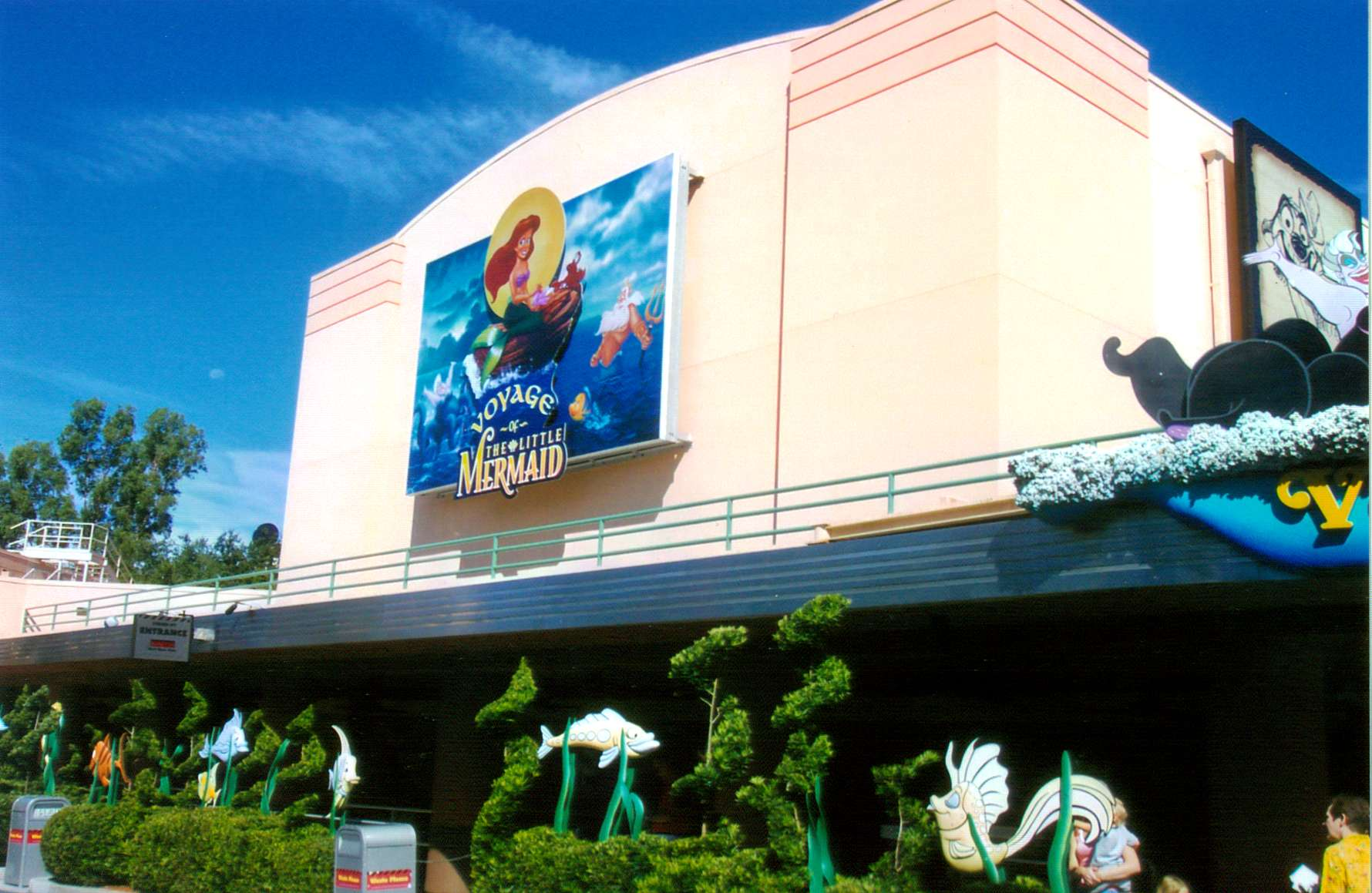 Entrance of Disney's Hollywood Studios' "Voyage of the Little Mermaid".